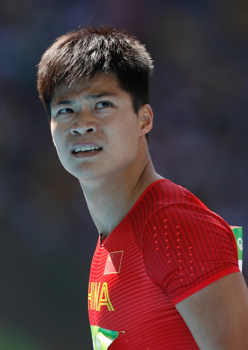 Men's 100 m sprint heats, Rio Olympics